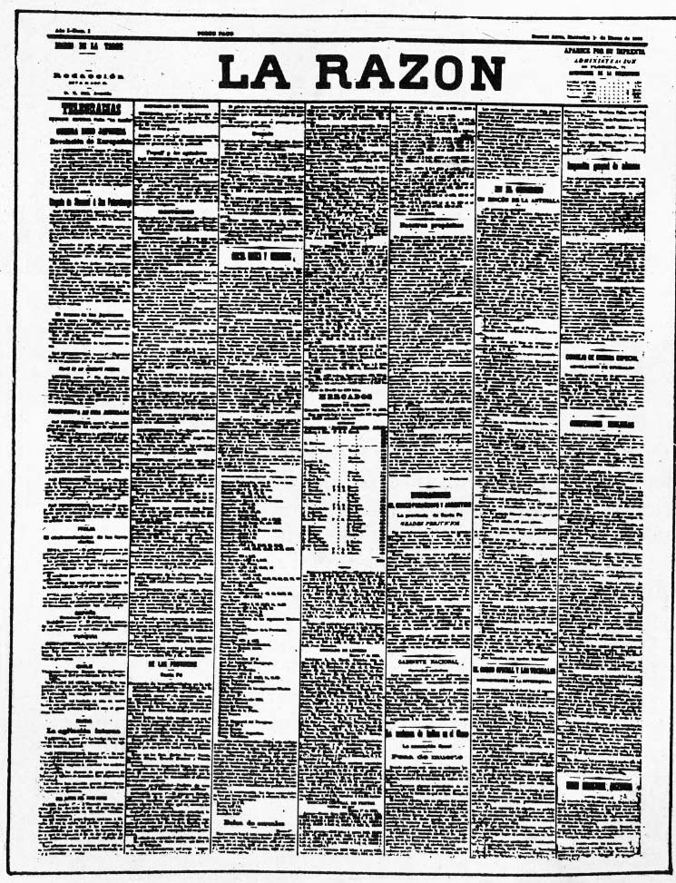 Cover to Argentine newspaper, La Razón #1.